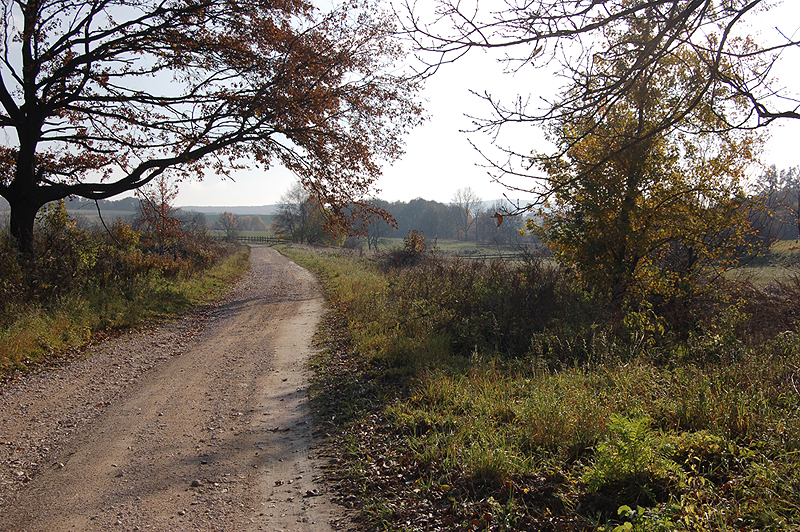 High Bakony Park near Porva, Autumn 2007